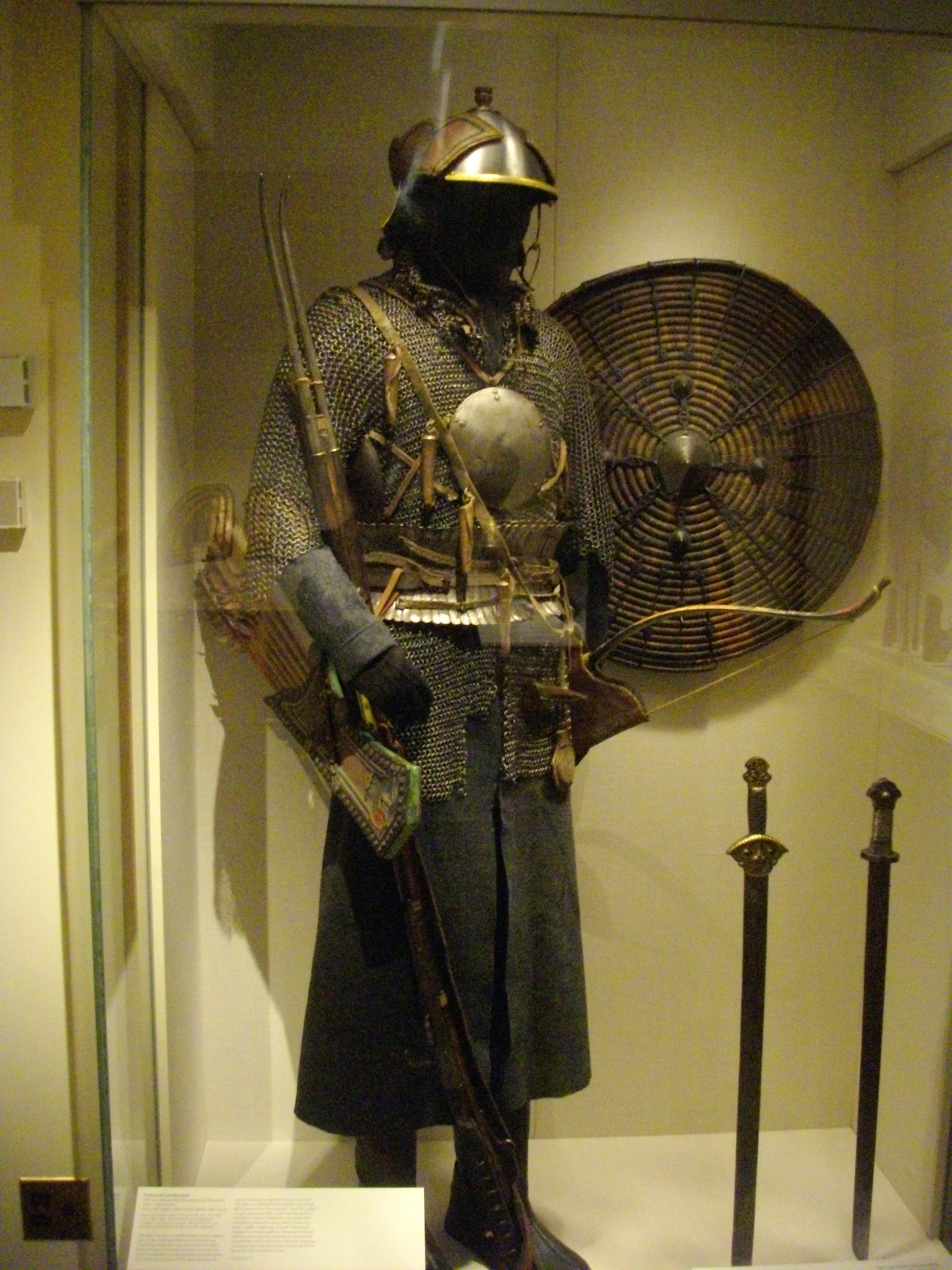 Cavalry armor, Tibet and possibly with Bhutanese and Nepalese elements, riveted mail hauberk with mirror armor, steel helmet, armored belt, one of a very few surviving examples, 18th–19th century, Iron, gold, copper alloy, wood, leather, and textile, assembled based on photographs taken in the 1930s and 1940s in the Tibetan capital of Lhasa during the Great Prayer Festival. The photographs showed troops of ceremonial armored cavalry, who wore a standardized set of equipment as stipulated by the central government of Tibet probably from the mid-seventeenth or eighteenth century onward. In the back round, a Tibetan shield, possibly 14th–16th c, cane, iron, and brass, Met museum.